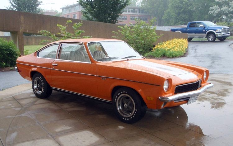 1973 Vega GT- Millionth Vega Special Edition. At the Fine Arts Center (Amherst, Massachusetts).